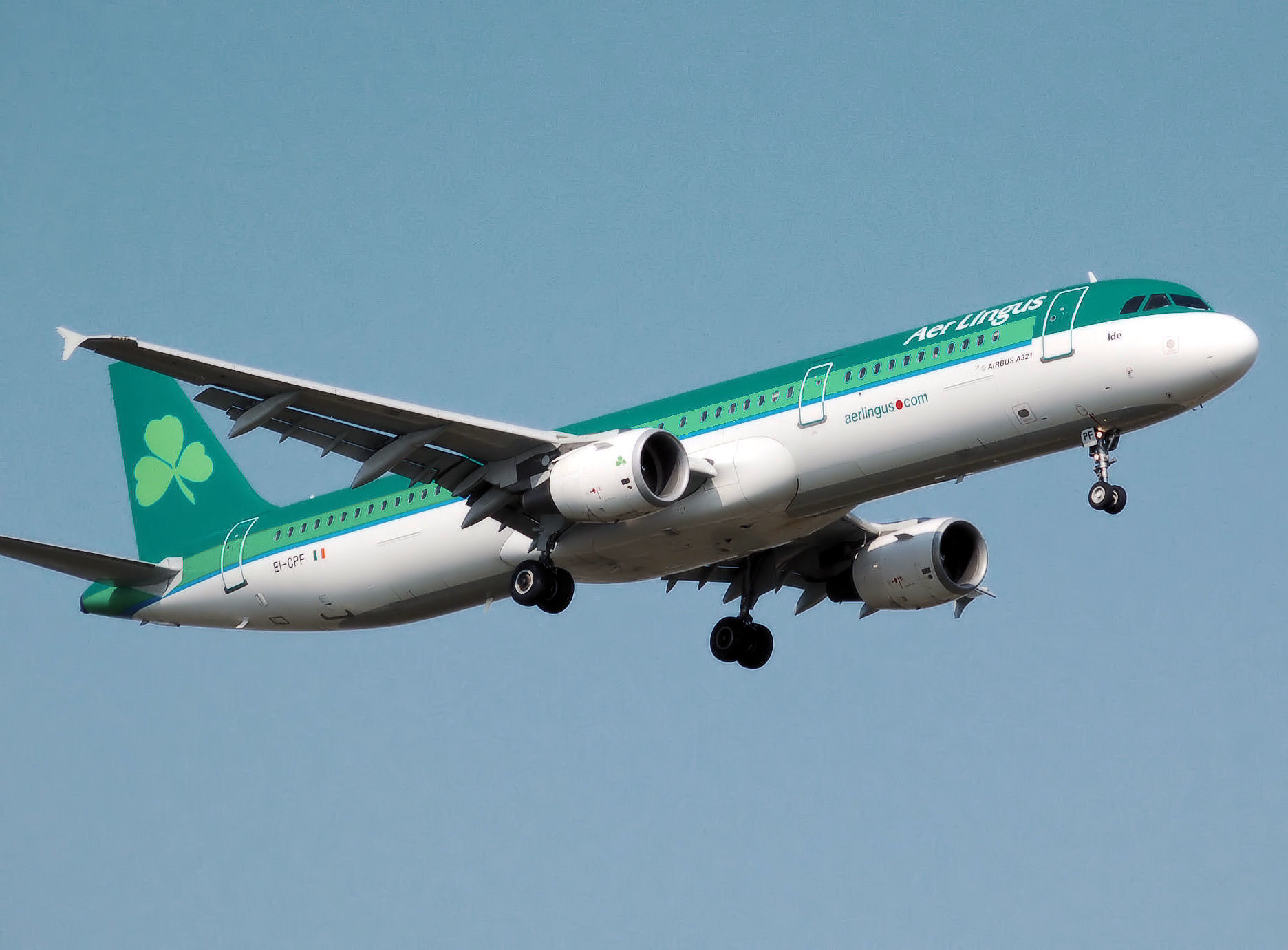 Aer Lingus Airbus A321-200 (EI-CPF, Saint Ida) lands at London Heathrow Airport, England.